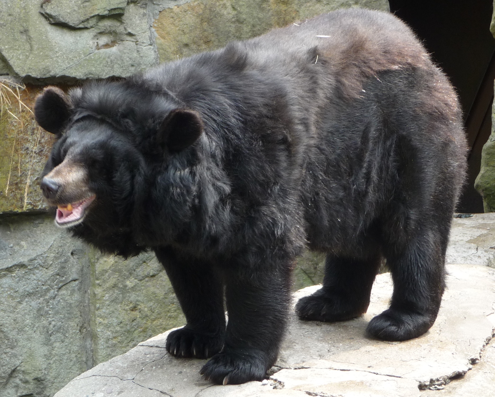 Ussuri Black Bear in Kaliningrad Zoo